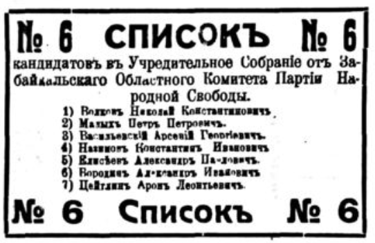 advert for list in Russian Constituent Assembly election, 1917